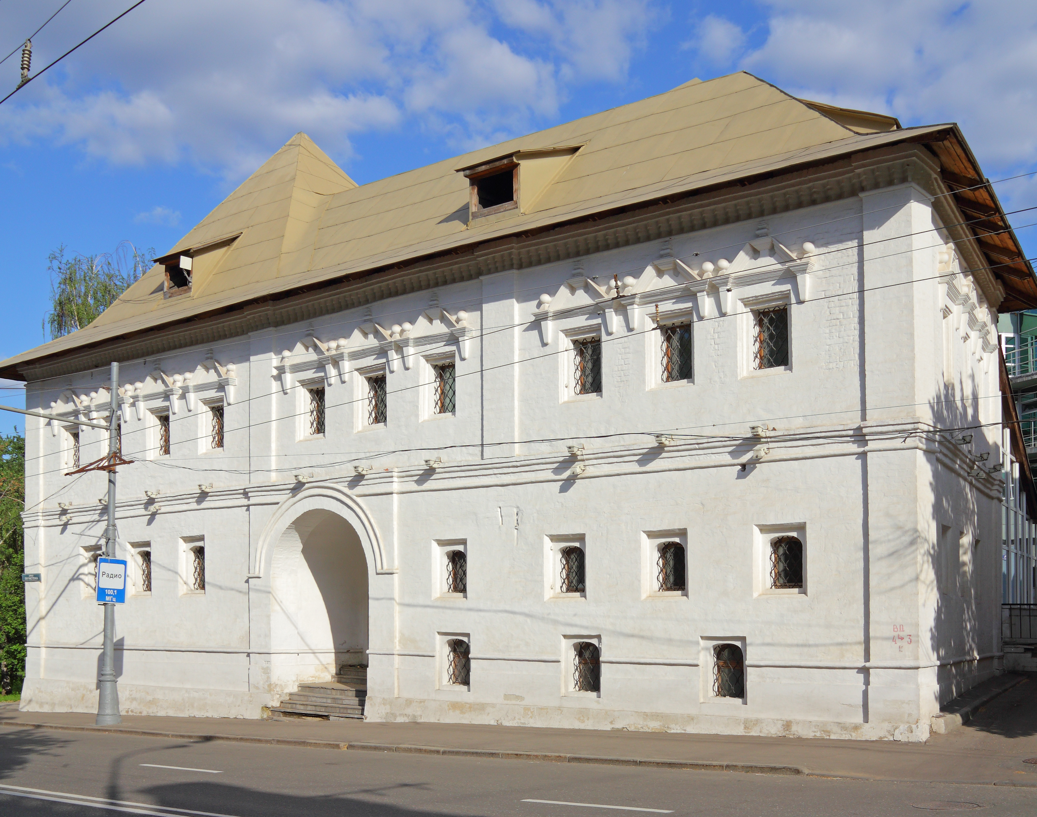 Moscow, Russia. Prechistenka Street. White Palace